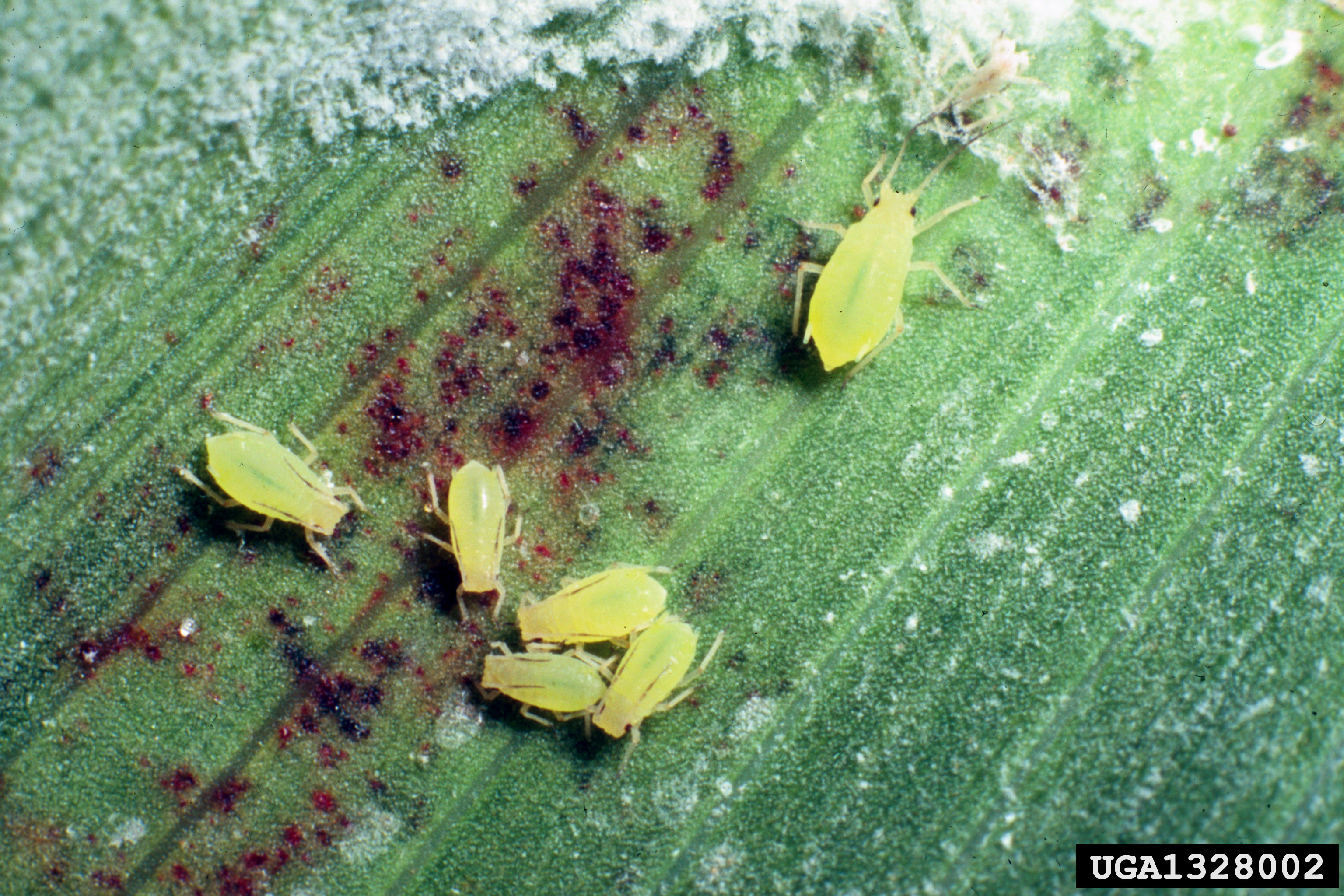 Schizaphis graminum adults on Sorghum bicolor, USA. "Purple coloration of leaf is typical of greenbug infestation."